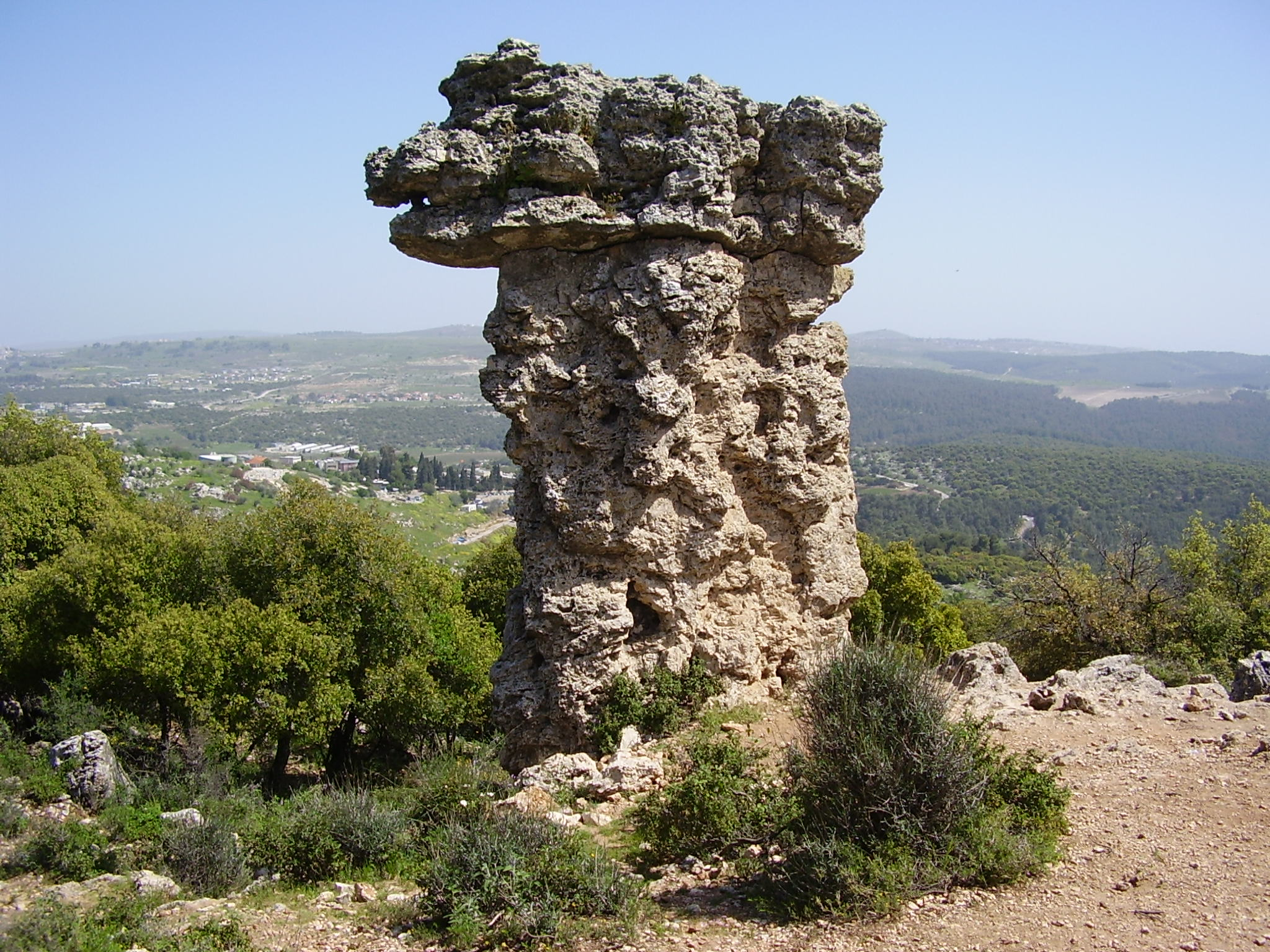 elijah's chair in meron , israel כסא אליהו מעל נחל מירון